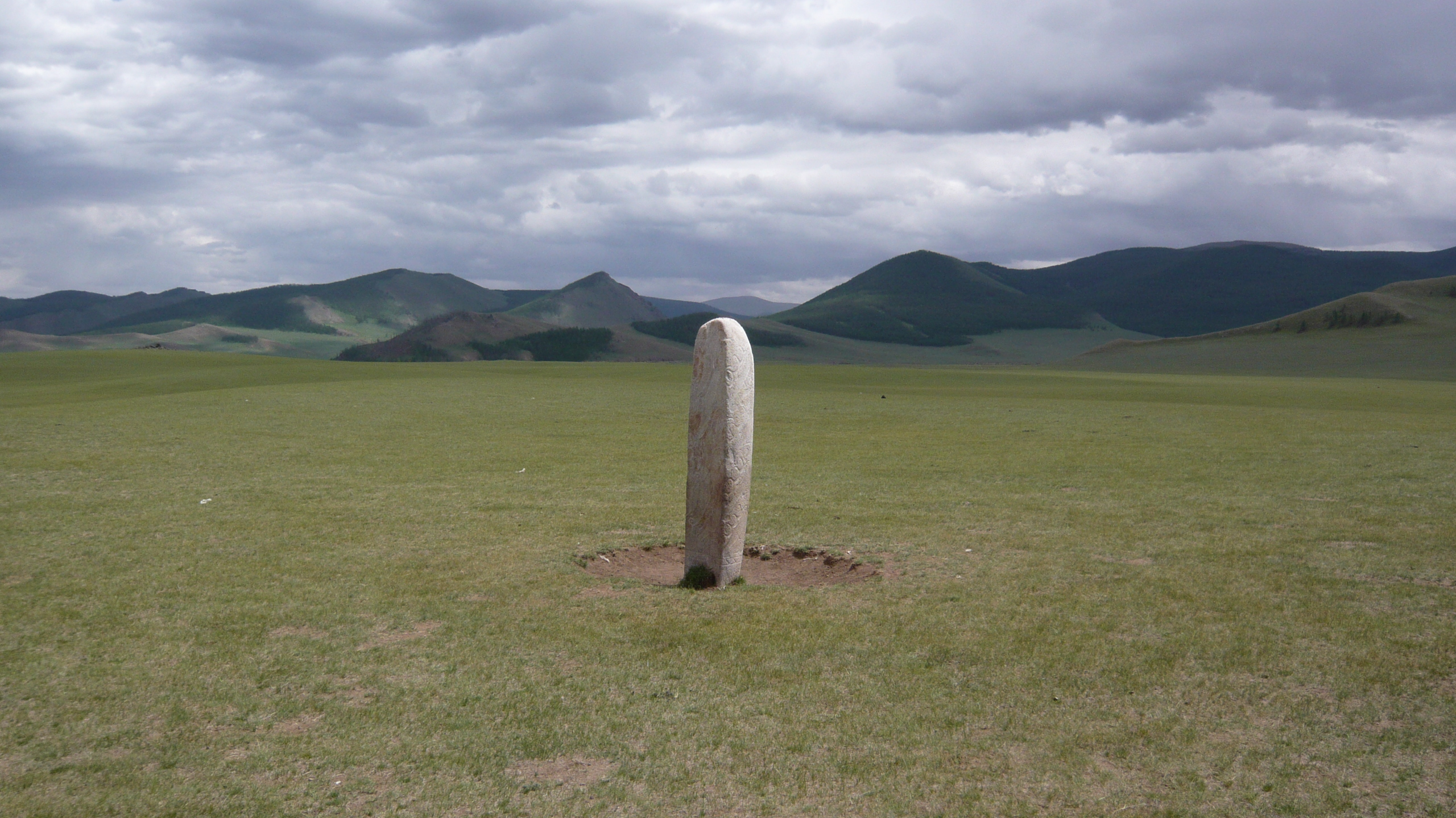 Deer stone near Ulaan Tsutgalan waterfall, Orkhon River, Mongolia